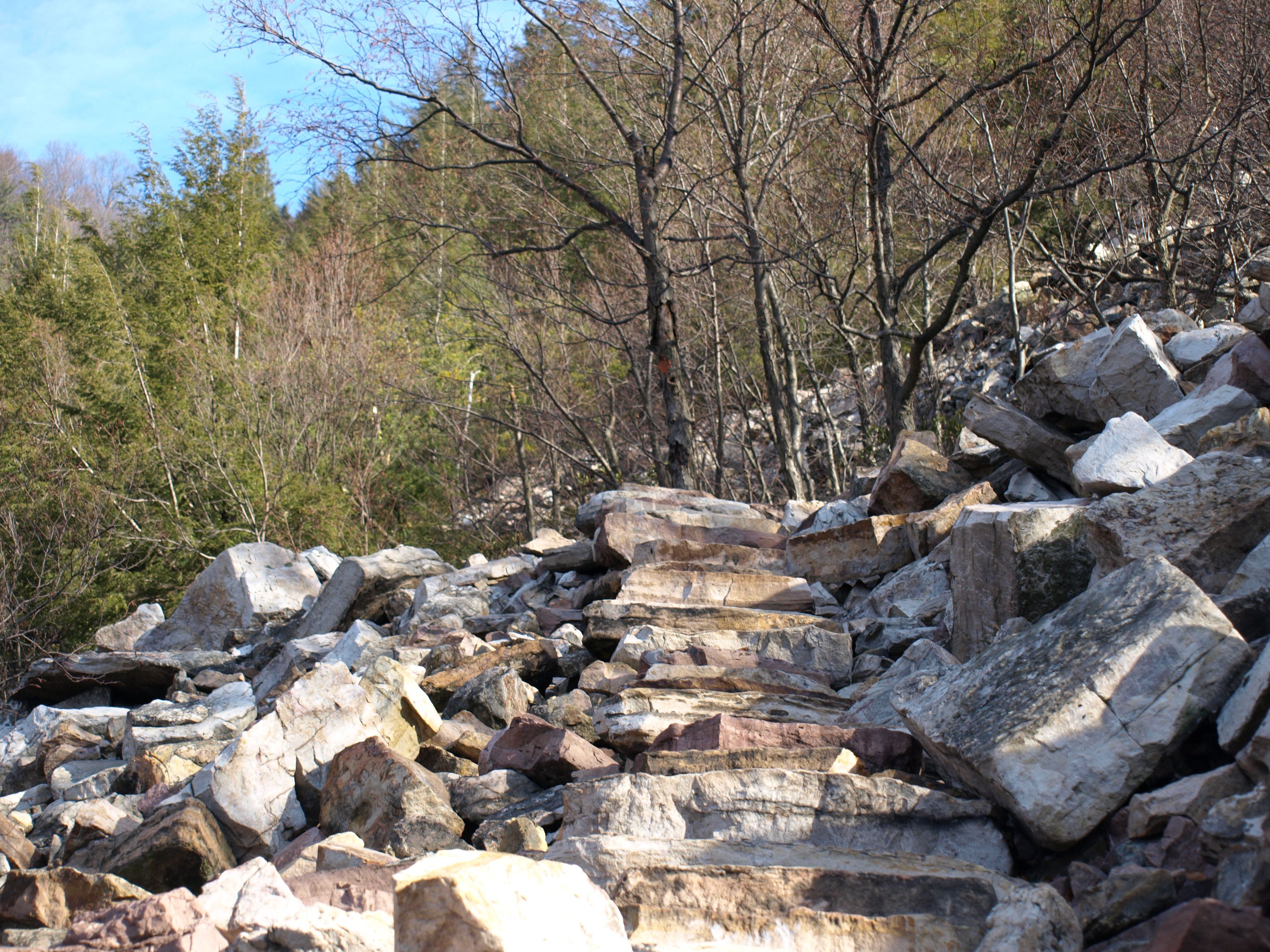 A Picture of the Thousand Steps